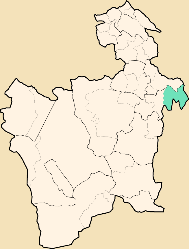 Ckochas Municipality, Potosí Department